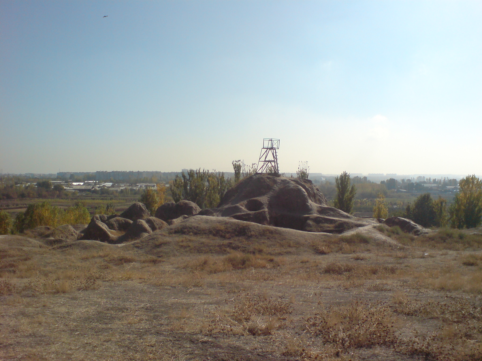 Древнейшее поселение на территории Ташкента - городище Шаштепа (общий вид)